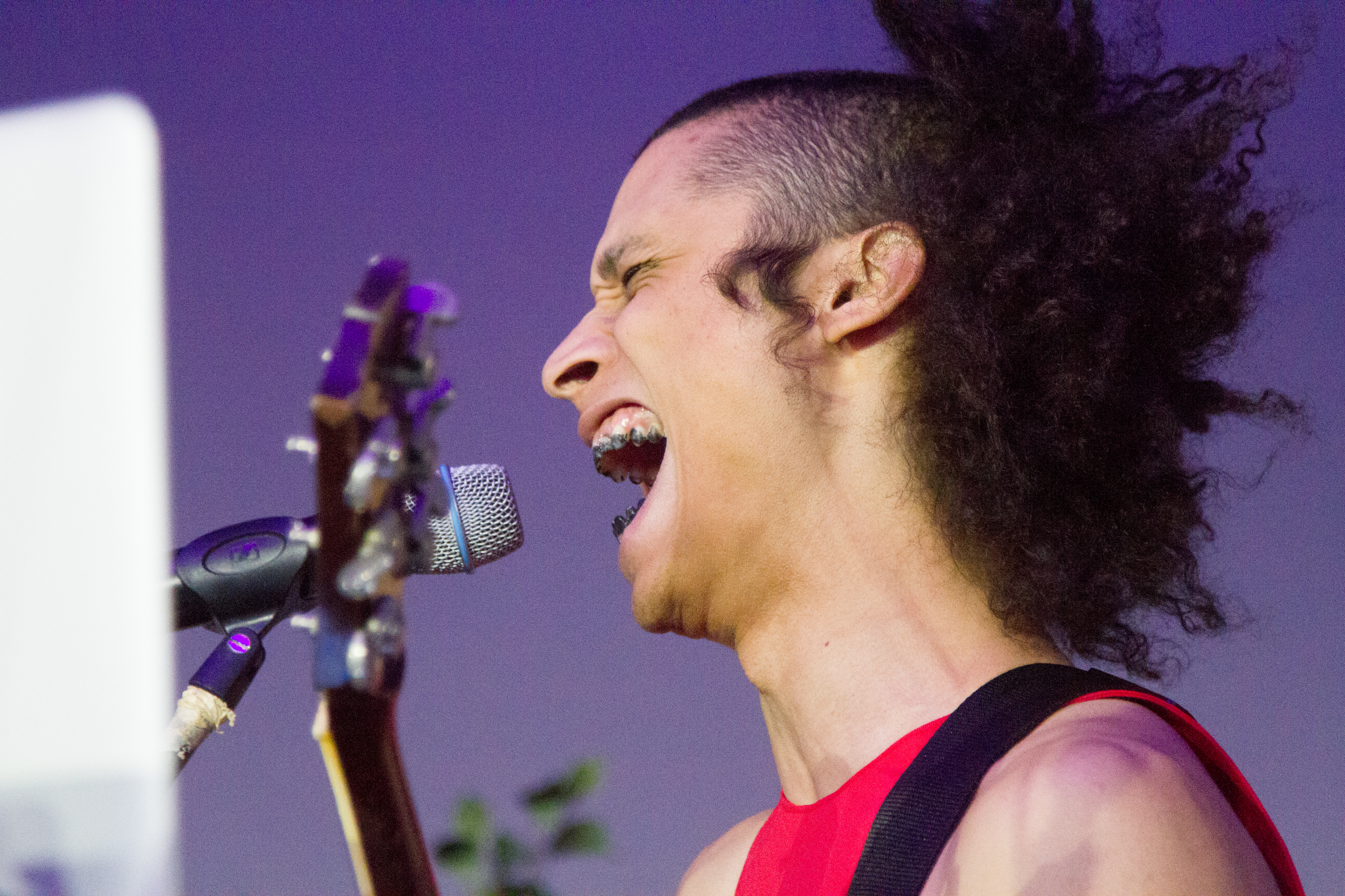 A photograph of the musician Violence holding a Gibson guitar and singing at the Museum of MoMA PS1.